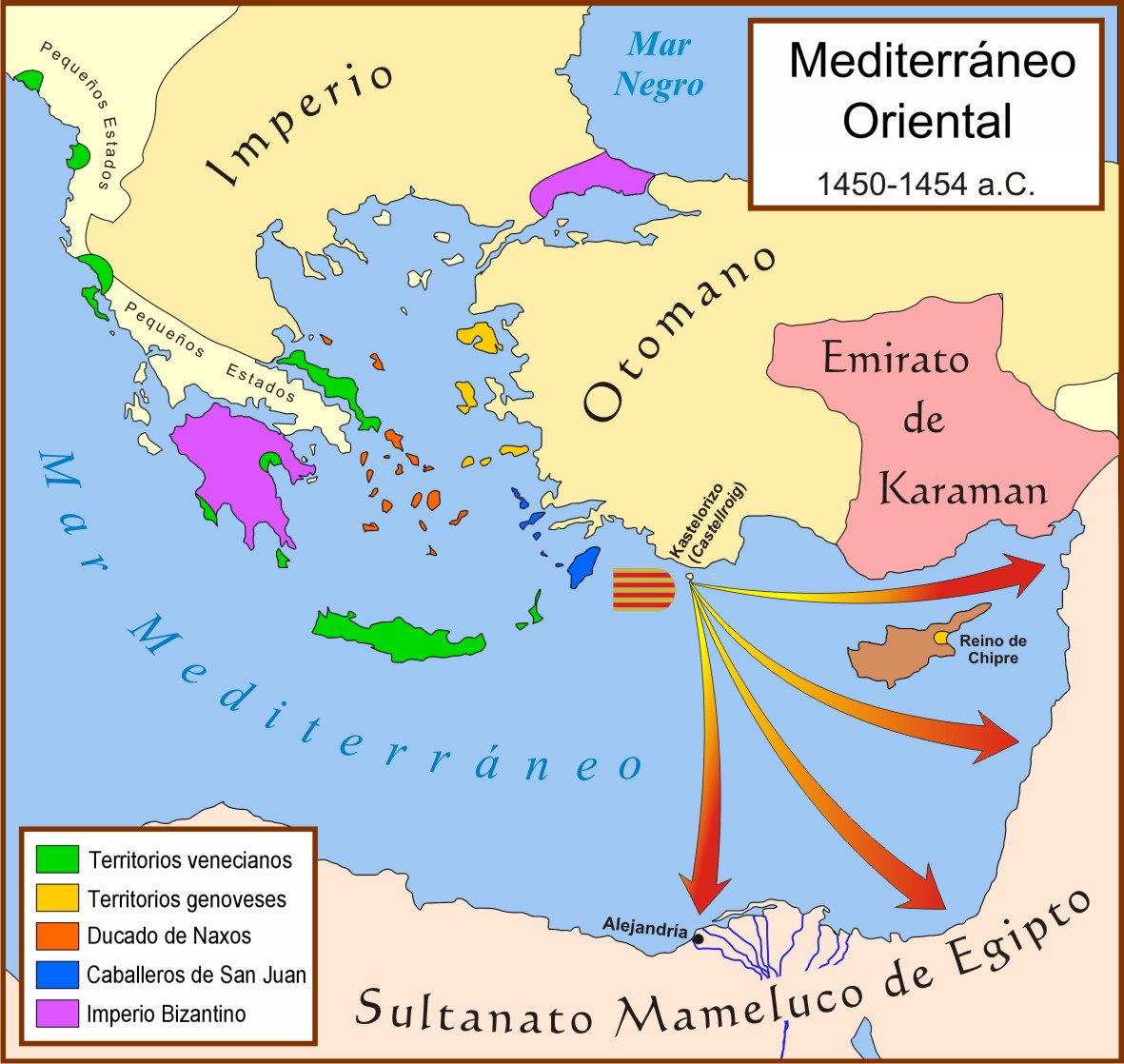 Raids of the pirate, privateer and admiral of the Crown of Aragon Bernat I de Vilamarí († 1463) on the Eastern Mediterranean coasts from Kastelorizo (Catalan: Castellroig), 1450–1454.